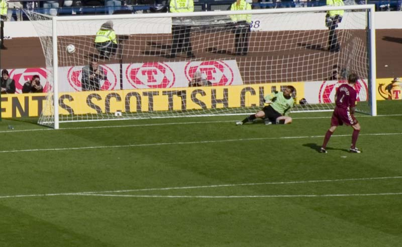 Steven Pressley scores in the Scottish Cup final penalty shootout. Photo taken by Davy Allan